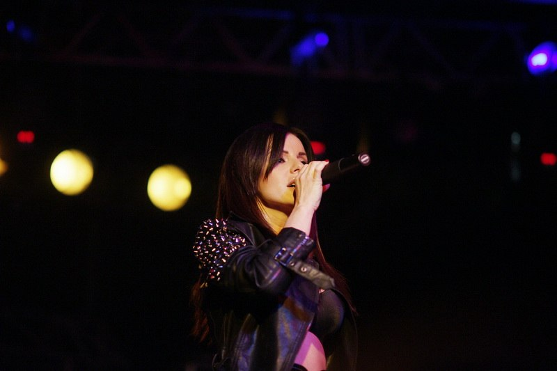 Julia Volkova live 2012